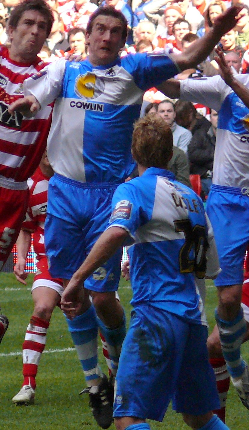 Craig Hinton, cropped from The Gas defend a corner